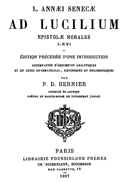 Epistulae morales ad Lucilium. Seneca. Paris, 1887.